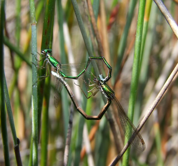 Hemiphlebia mirabilis damselfly mating pair